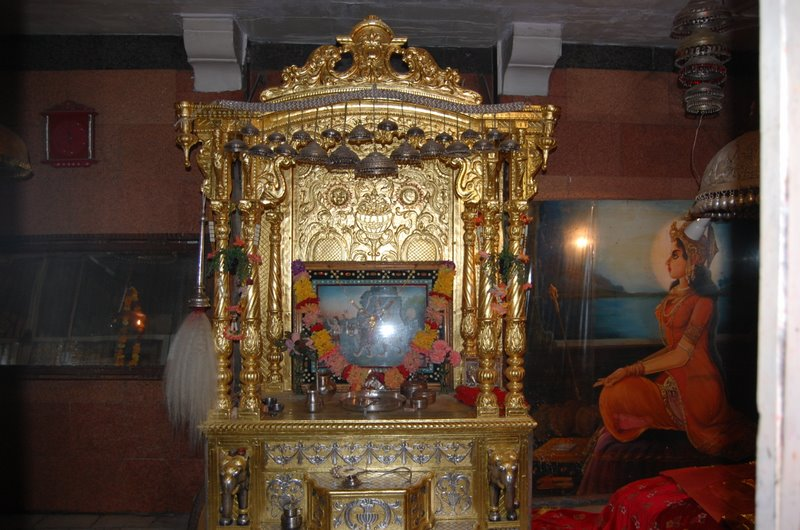 Heart of Aai Mata Temple Temple